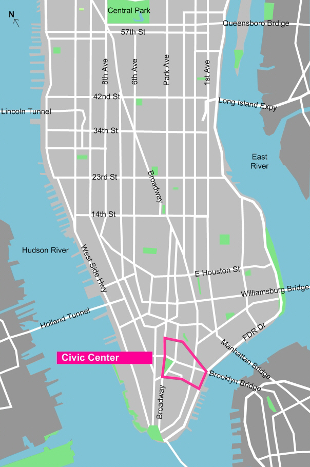 map of the Civic Center in Manhattan, New York